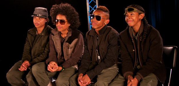 Mindless Behavior at the Walmart Risers interview. From left to right: Roc Royal, Princeton, Prodigy & Ray Ray